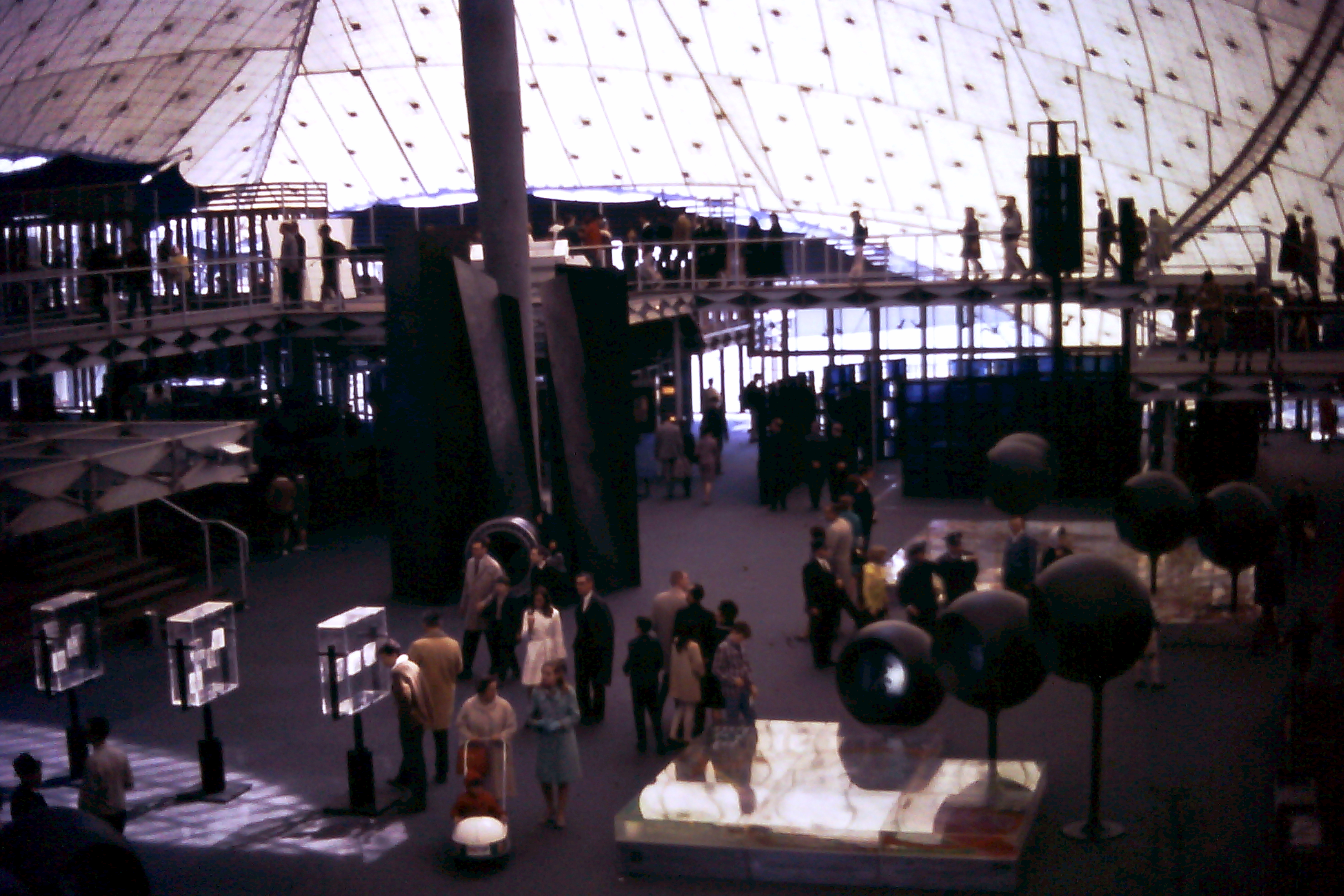 Inside the German pavilion. This picture was taken by my father at Expo 67 (I was -7 years old at the time). I scanned these pictures from slides.